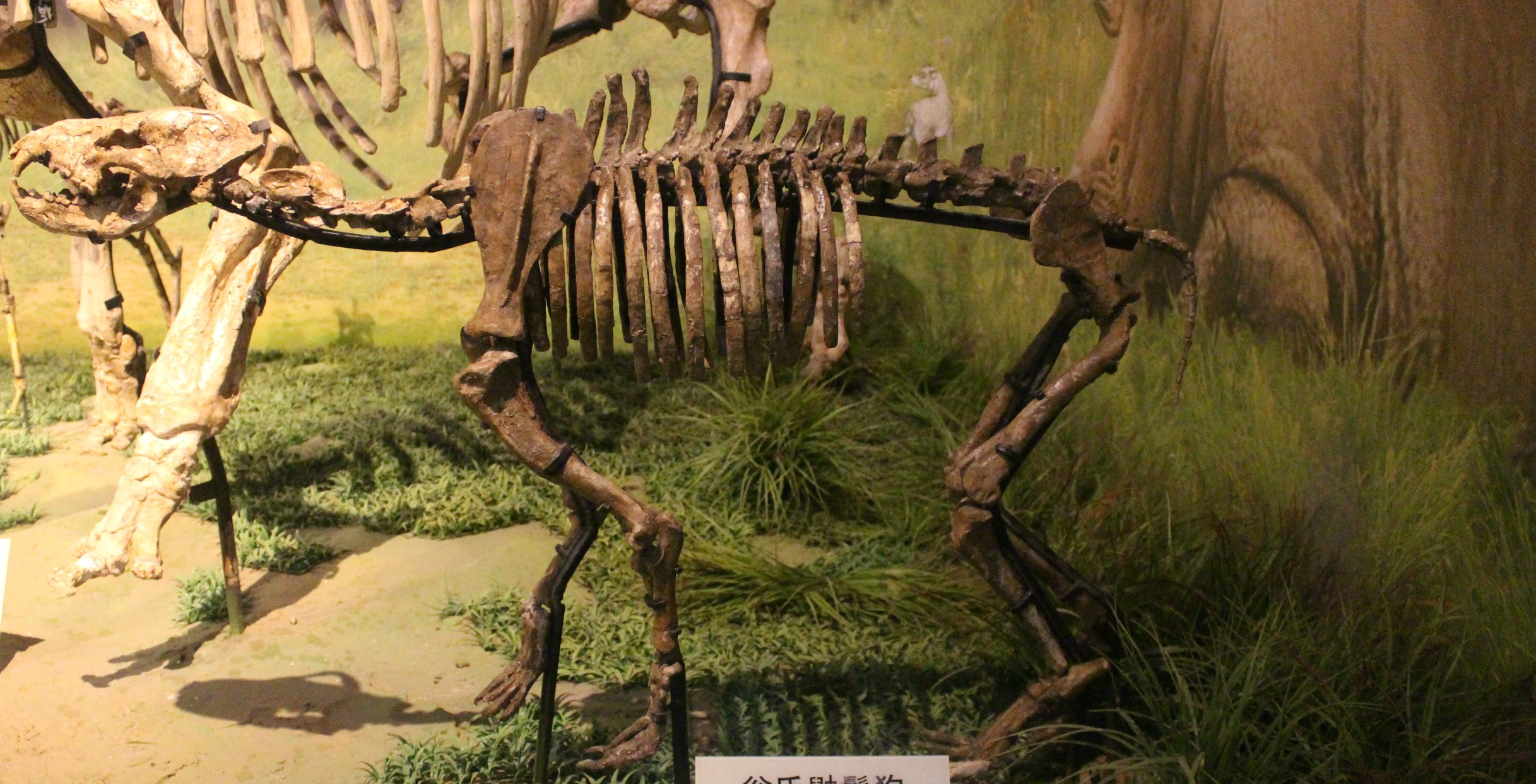 Skeletal mount of Ictitherium on display at the Tianjin Natural History Museum.